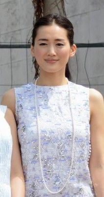 Haruka Ayase at the Cannes film festival